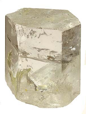 Beryl (Var.: Goshenite) Locality: Mogok, Pyin Oo Lwin District, Mandalay Division, Burma (Myanmar) (Locality at ) 2.1 x 2.0 x 1.5 cm